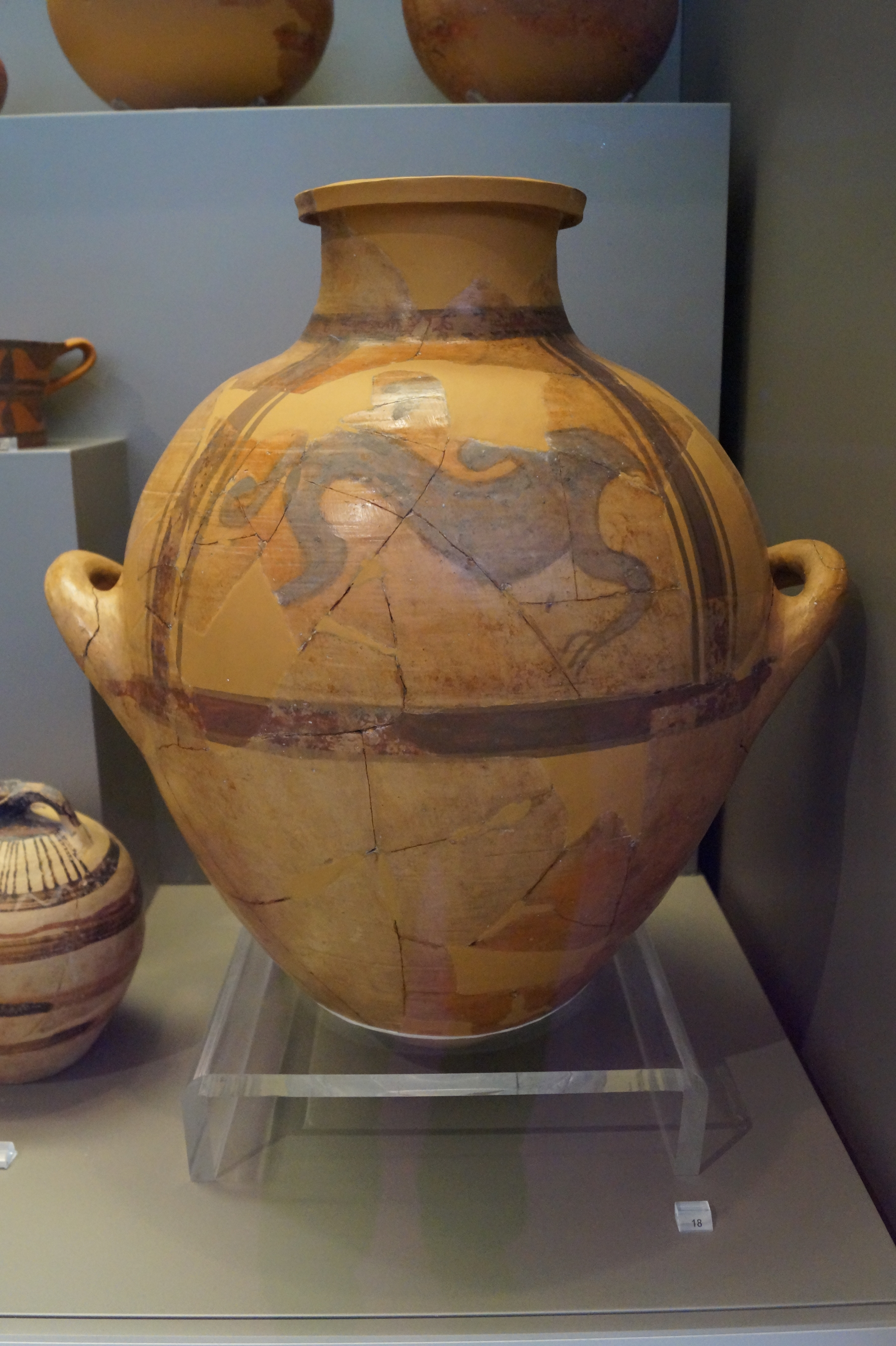 National Archaeological Museum of Athens: Mattpainted pottery from grave VI of grave circle A at Mykenae (NAMA 948).